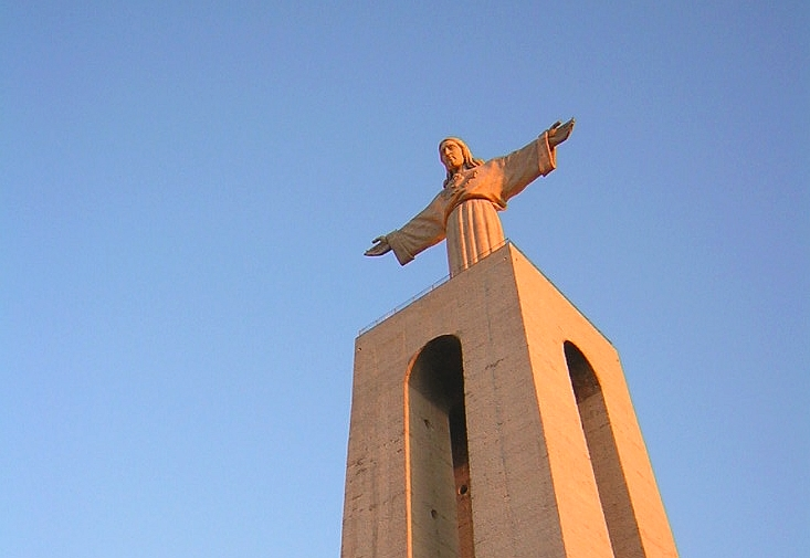 Cristo Rei